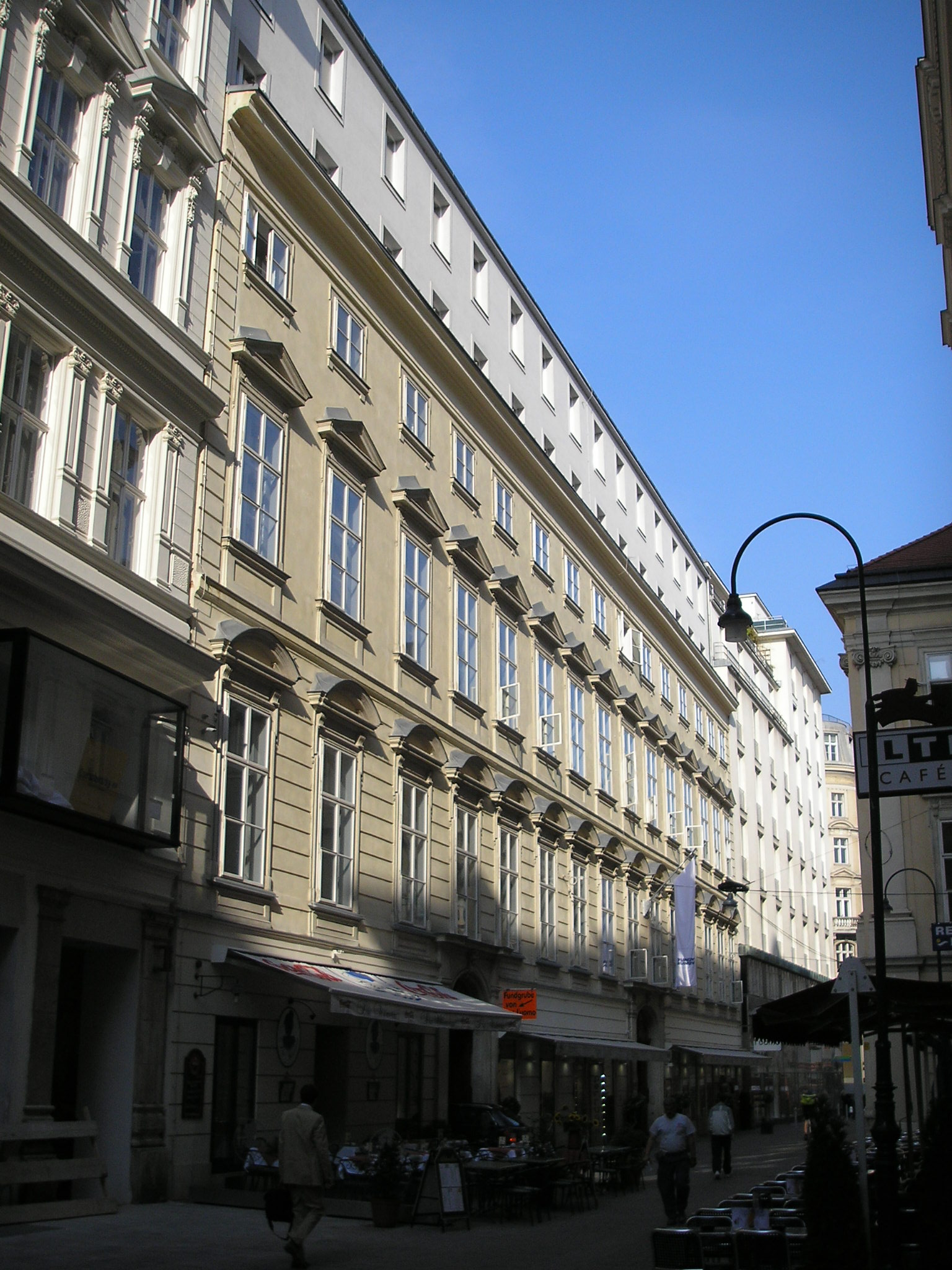 Image of the Palais Lamberg, also known as the Kaiserhaus on Wallnerstraße in Vienna.